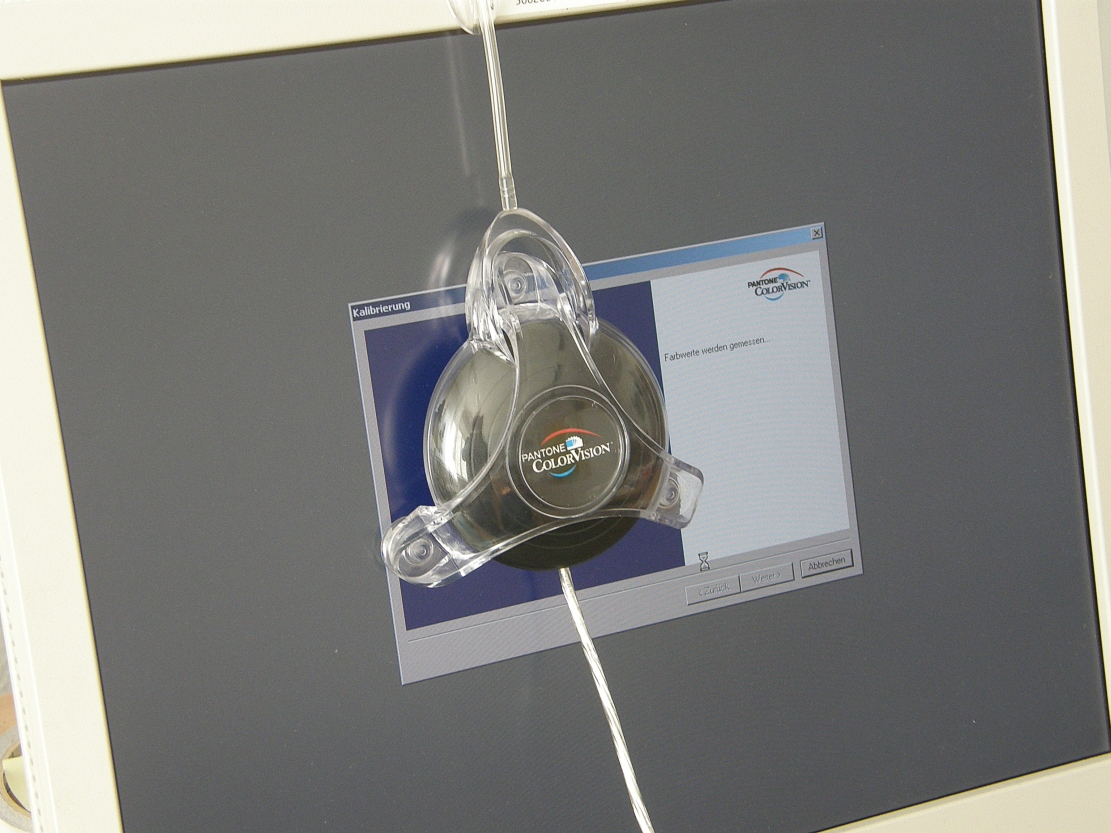 Monitor Calibration